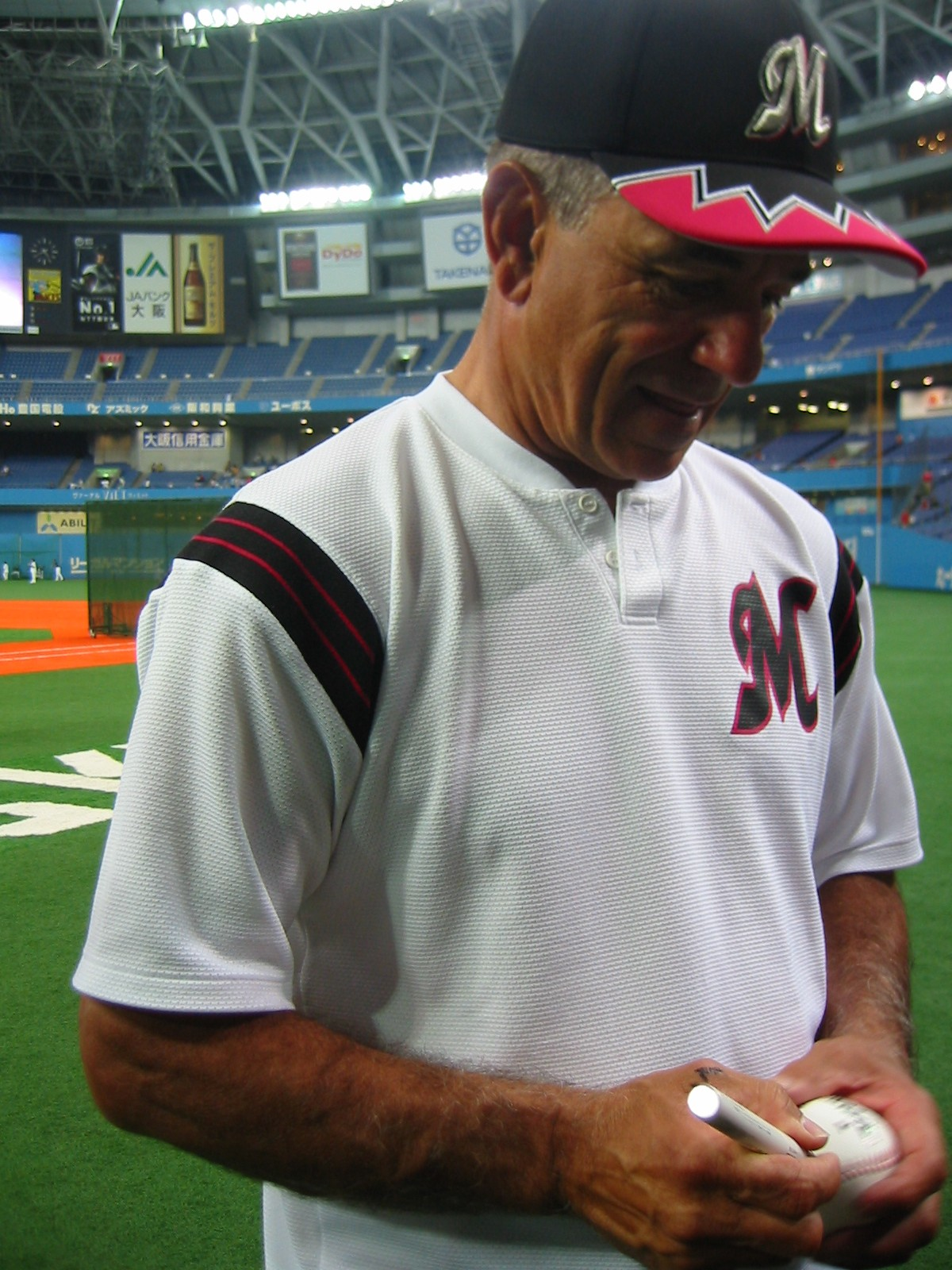 Bobby Valentine signing a ball at the Kyocera Dome Osaka.